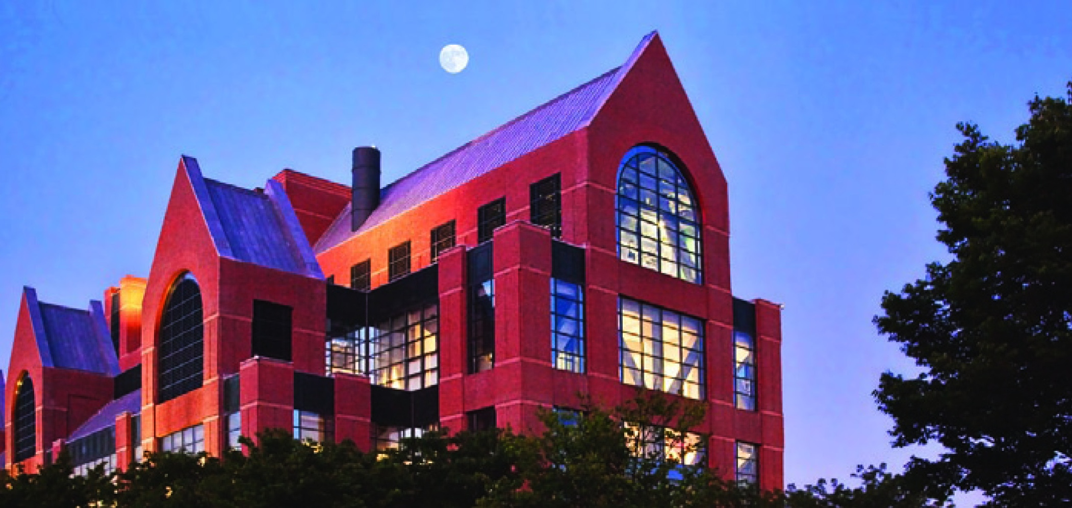 Genzyme's problem-plagued manufacturing plant in Allston, Massachusetts.